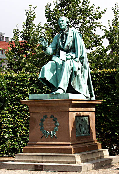 Sculpture of H.C. Andersen in Rosenborg Garden in Copenhagen. The sculpture is by August Saabye (1823-1916) and the illustration on the side of the pedestal is by Vilhelm Pedersen.